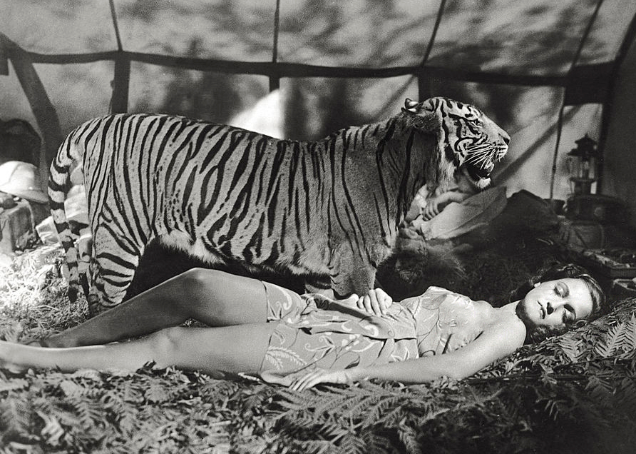 The American actress Dorothy Lamour acting in the film 'Beyond the Blue Horizon'. 1942